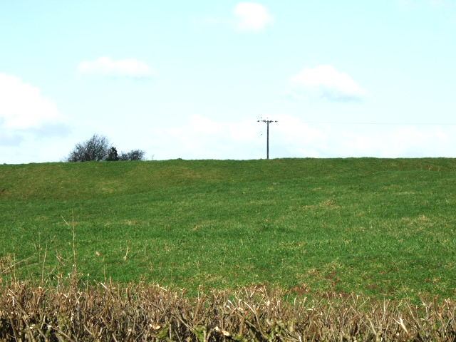 Site of the Medieval Village Edge of the site.